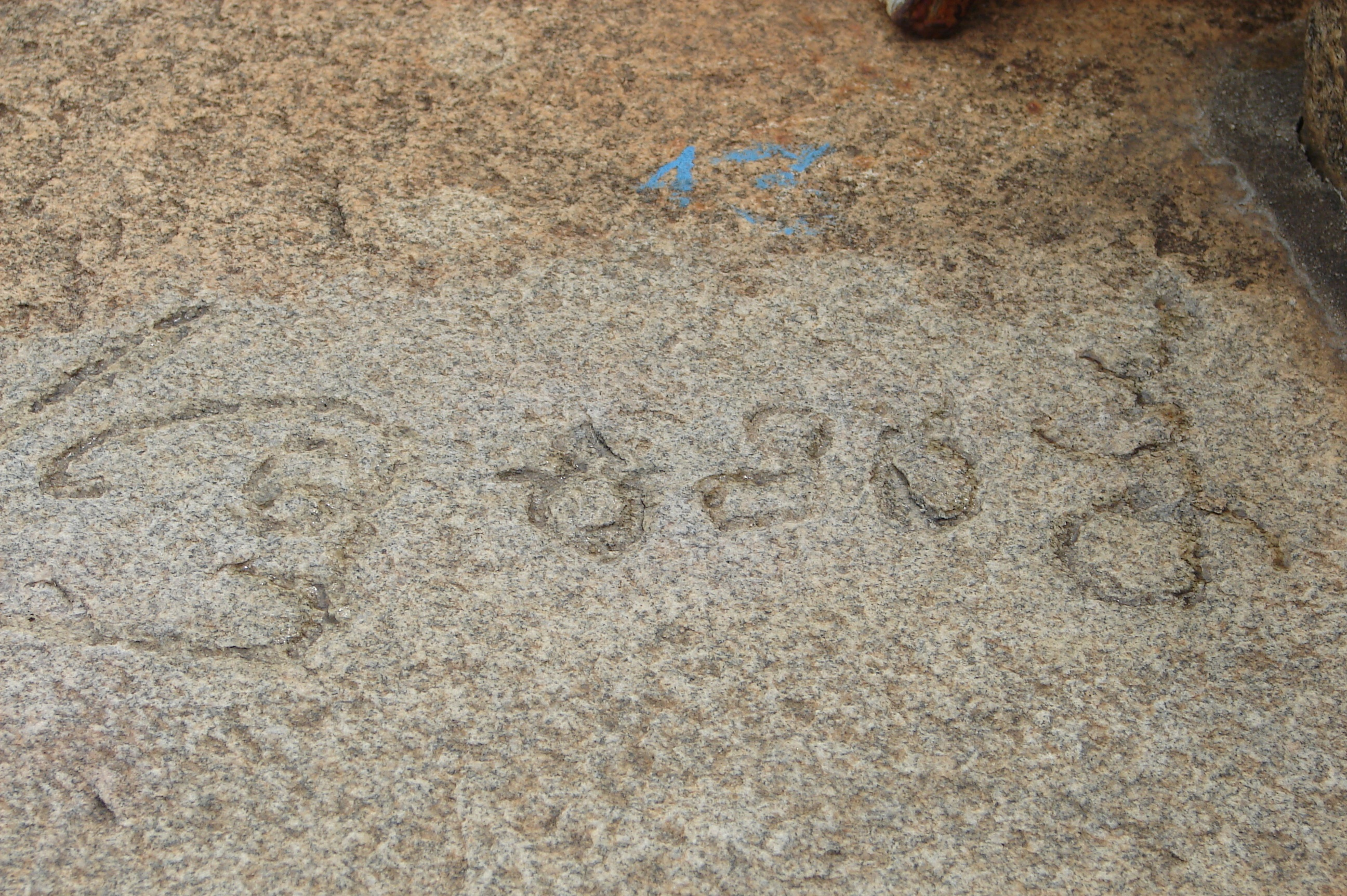 photograph of the inscribed handwriting of 10th century Kannada poet Ranna at Chandragiri hill, Shravanabelagola, Hassan district, Karnataka state, India in July 2007. The inscription reads Kavi Ratna meaning "gem among poets".